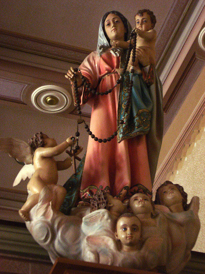 Our Lady of the Rosary, in Chapel Nosso Senhor dos Passos, Santa Casa de Misericórdia of Porto Alegre, Brazil. XIXth century, unknown author.